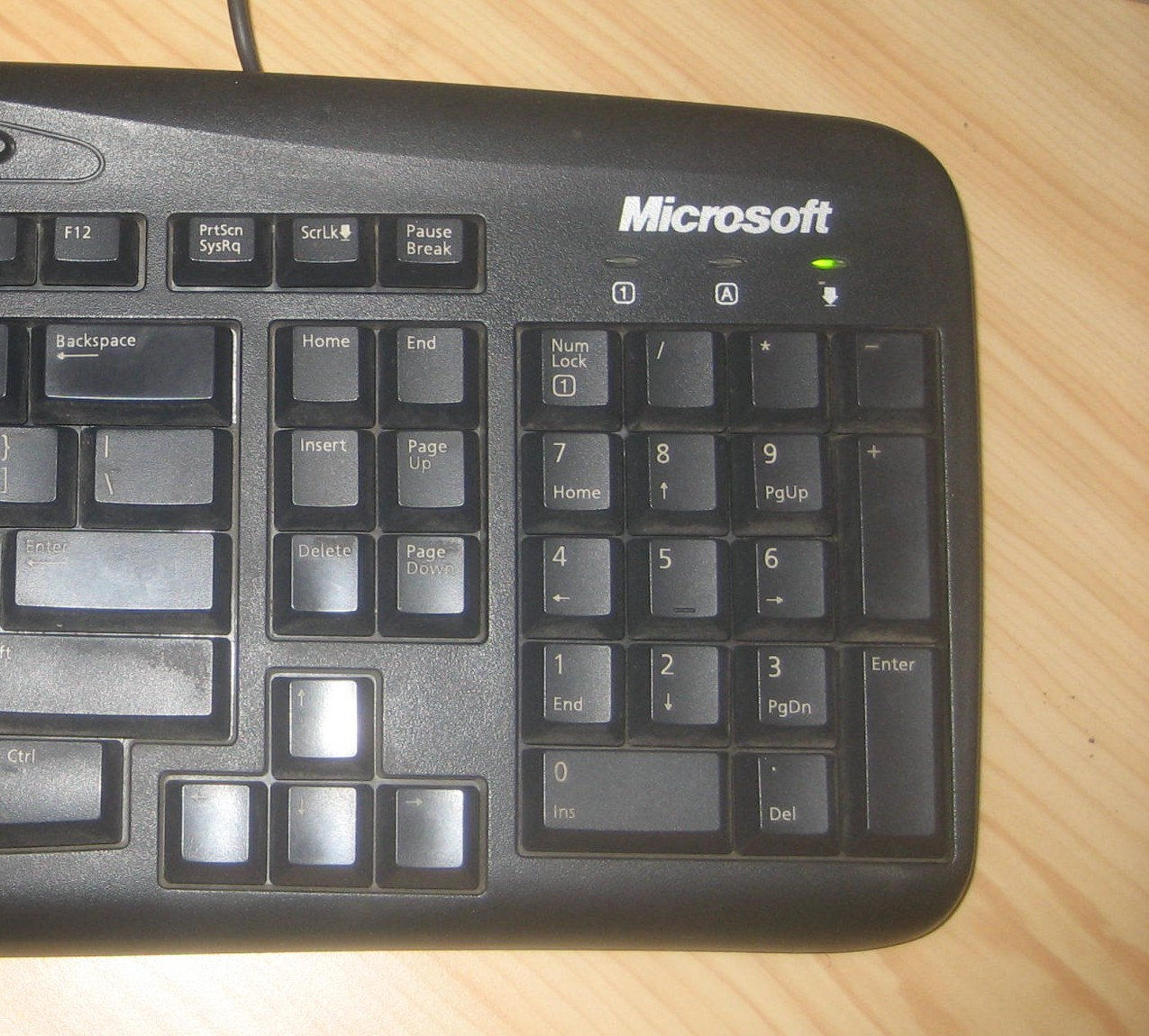 Keyboard Indicator lights up when Alternate Keyboard layout is in Use in Ubuntu